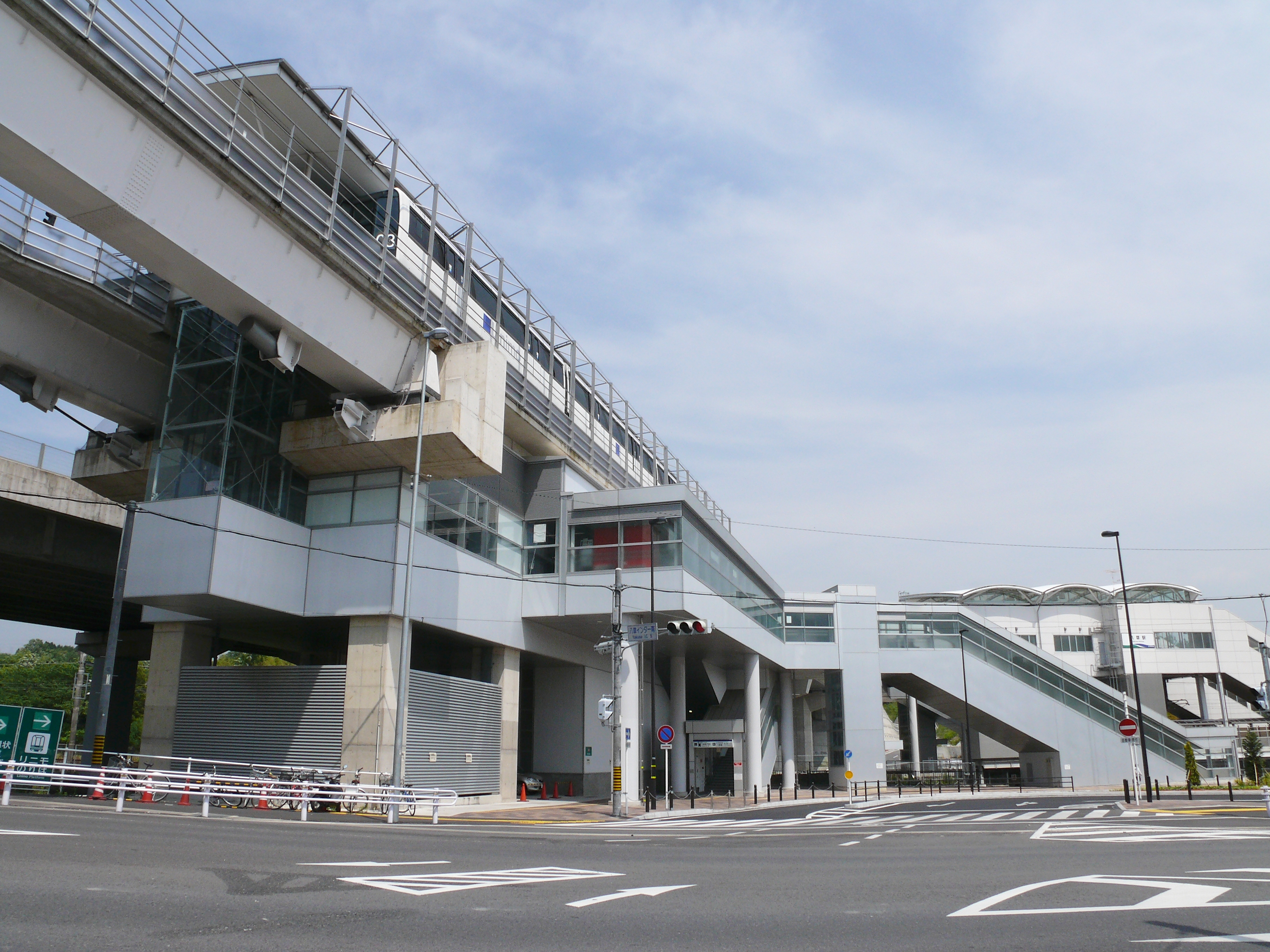 Linimo of Yakusa Station.